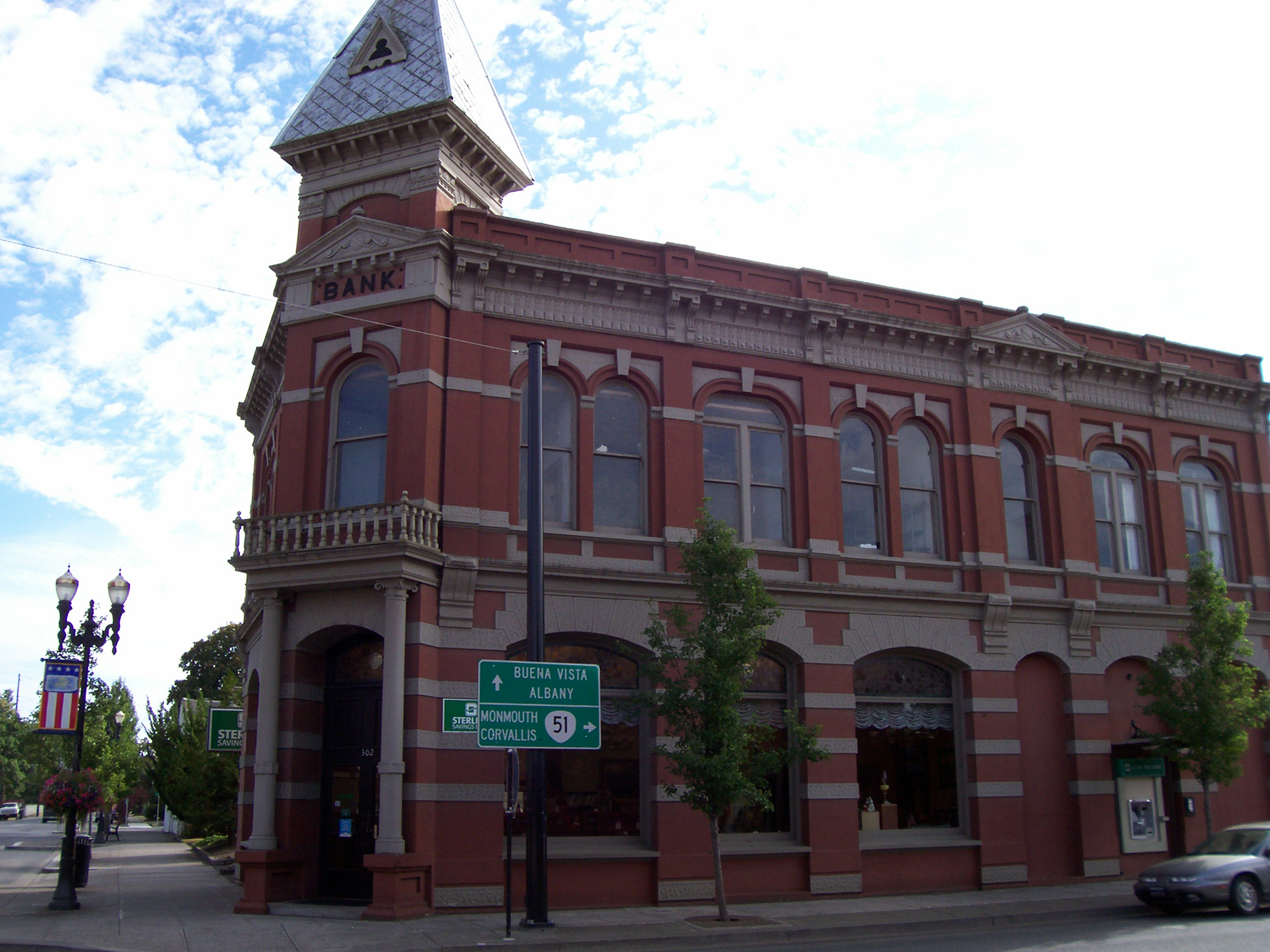 Independence National Bank in Independence, Oregon. Listed on the National Register of Historic Places.